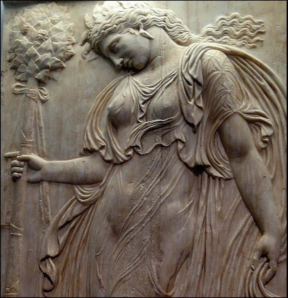 Roman relief showing a dancing maenad holding a thyrsus.